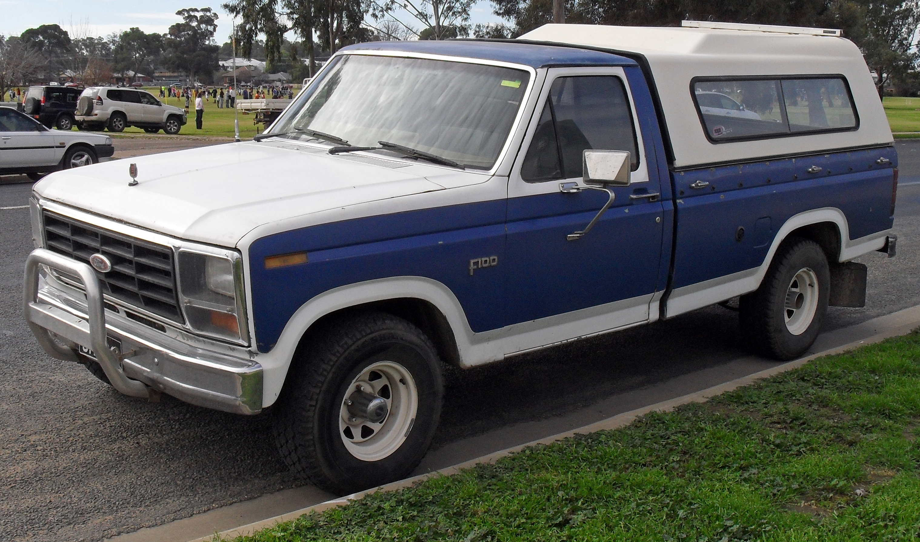 1981-1987 Ford F100 utility photographed in New South Wales, Australia.